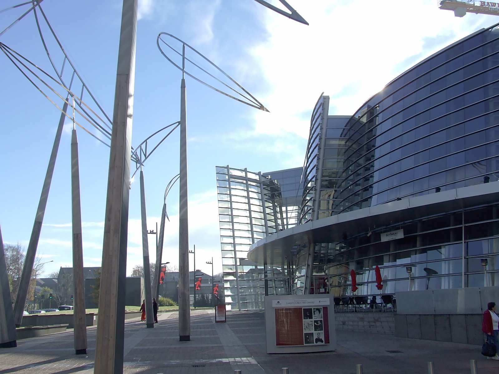 The Christchurch (New Zealand) Art Gallery and sculpture Reasons for Voyaging by Graham Bennett on a brisk winter's morning.